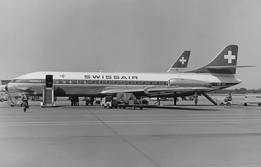 Sud Aviation Caravelle of Swissair at Zürich